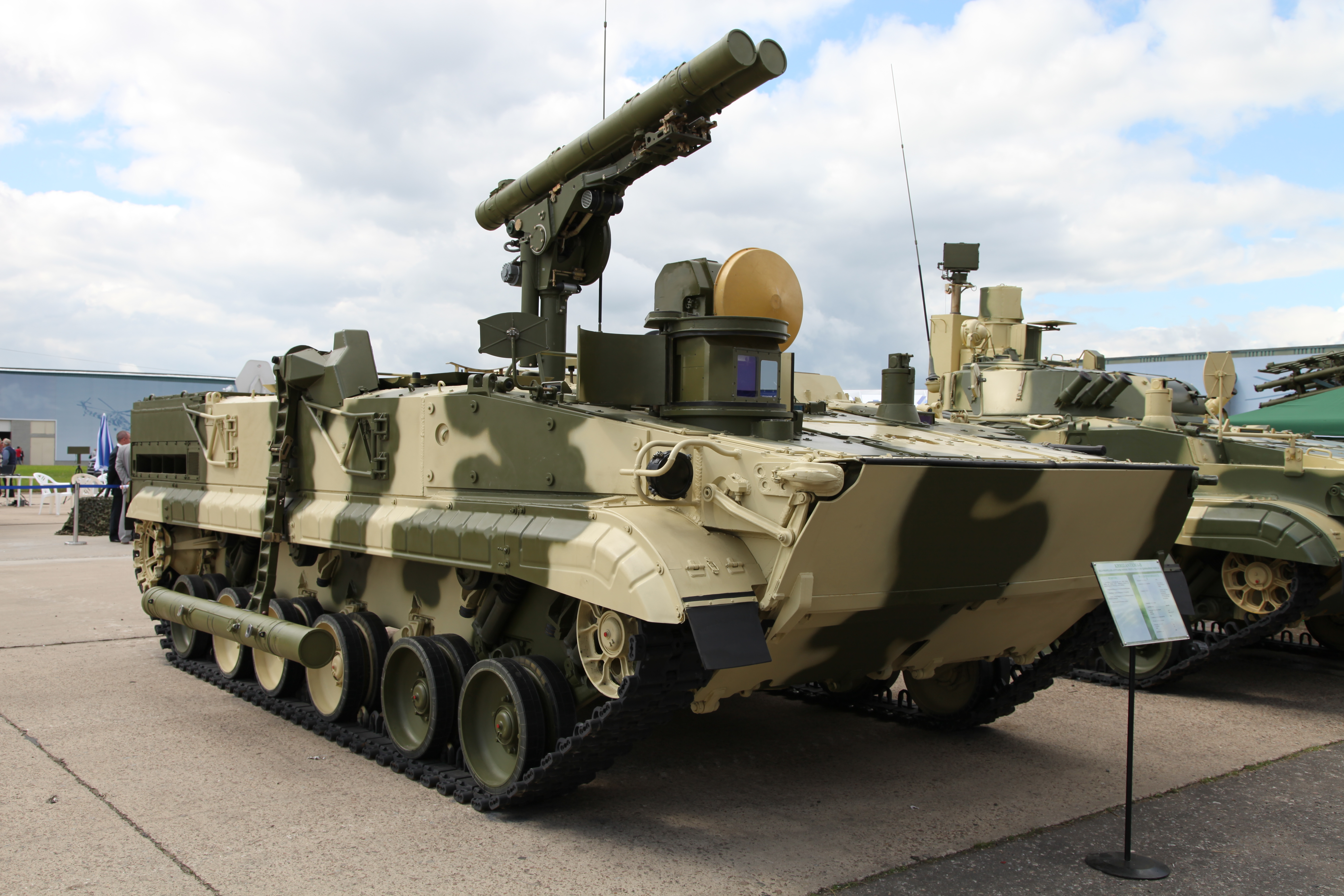 9P157-2 vehicle with 9M123 missiles of anti-tank complex «Khrizantema» at Engineering Technologies 2012 international forum